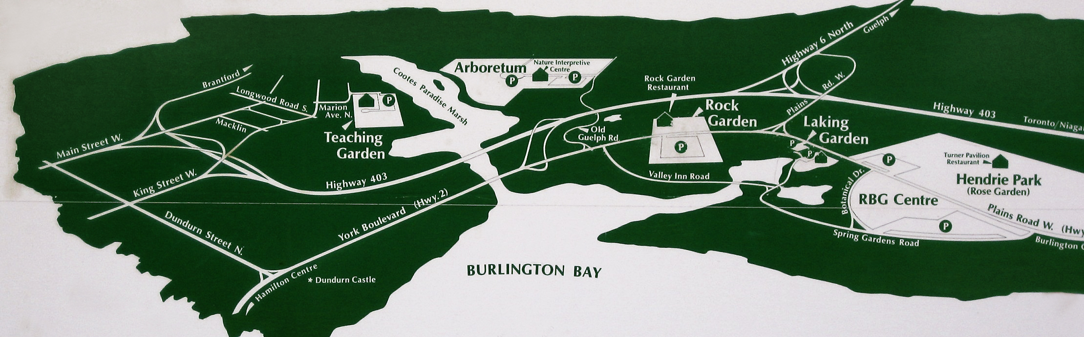 Map: Royal Botanical Gardens, Hamilton, Canada.